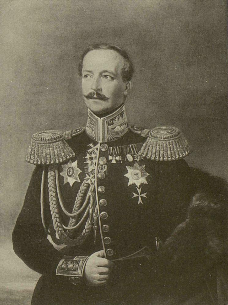 Alexey Yakovlevich Lobanov-Rostovsky (1795-1848)